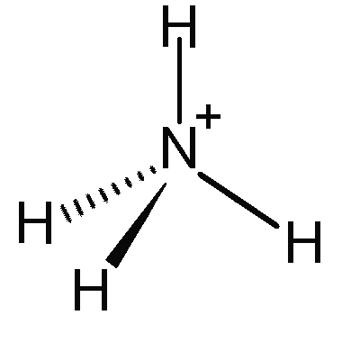 Ammonium ion Created for myself from Image:Ammonia lone electron pair.PNG by User:H Padleckas